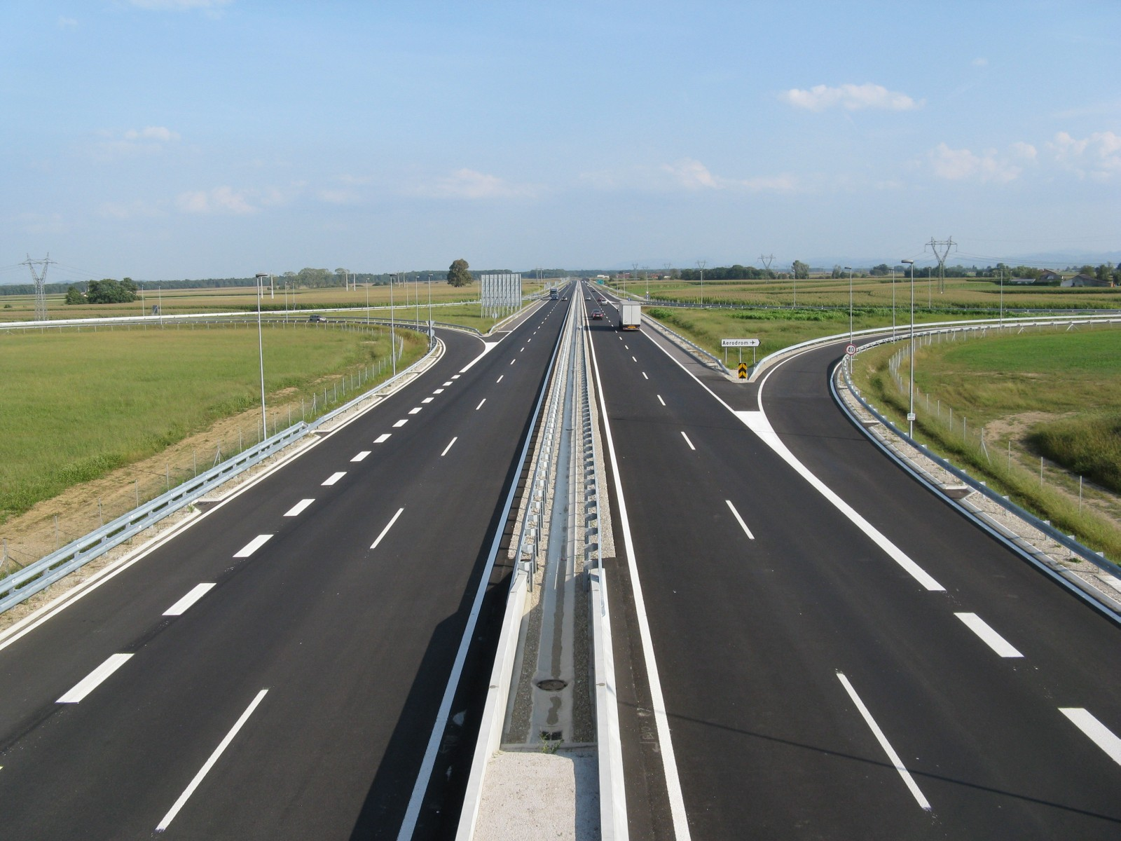 Slivnica-Draženci Highway (direction Draženci)